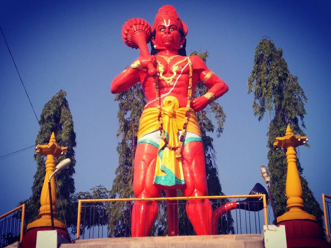 Clicked from my mobile camera I already posted it before on my instagram account.